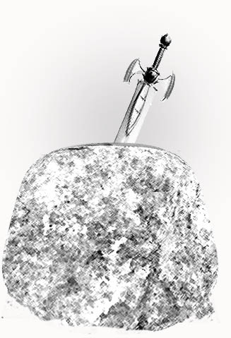 Artist Britton LaRoche. Sketch of King Arthur's Sword in the Stone. Released to the public domain.